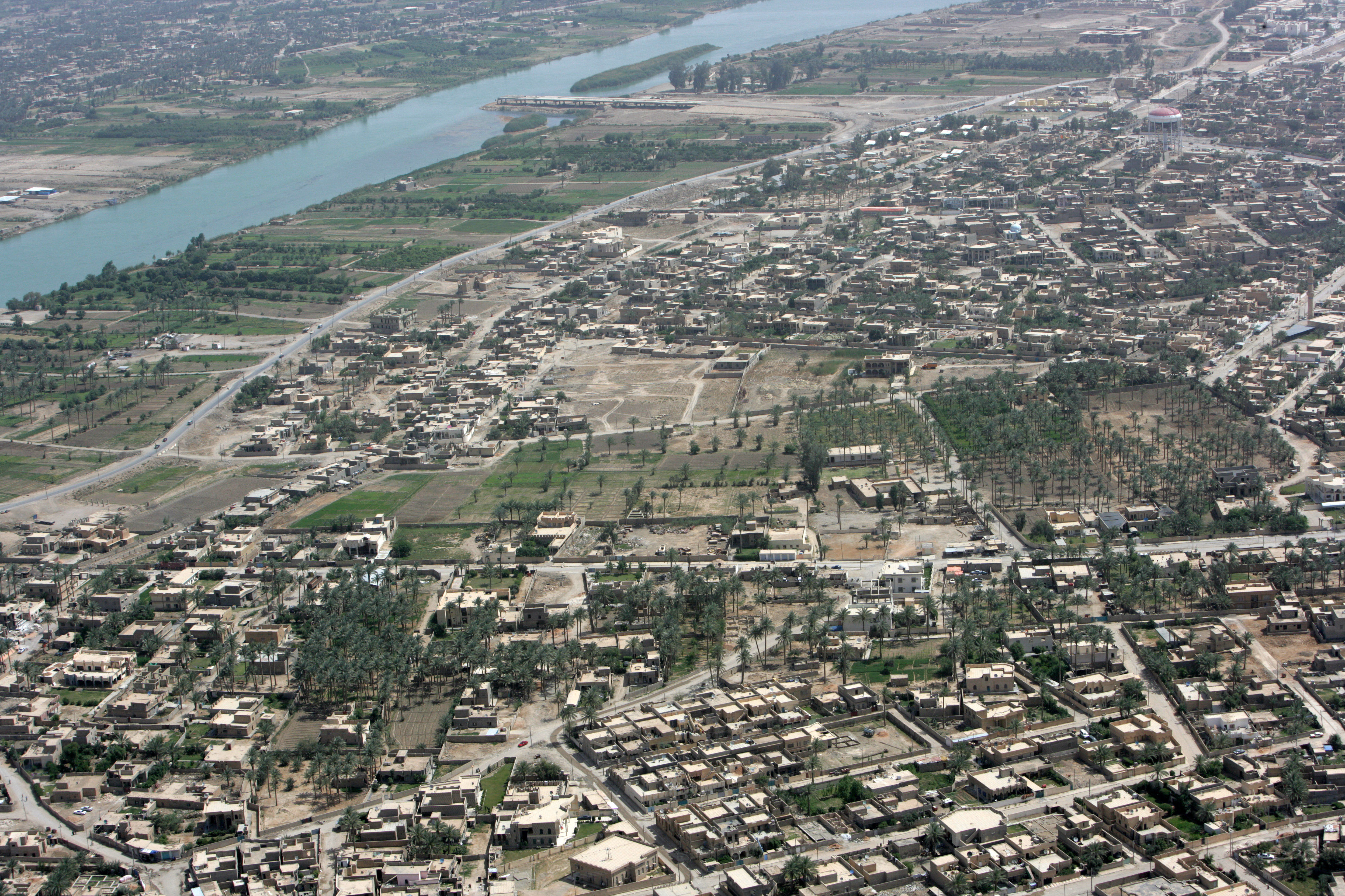 Shown here April 23, 2008, is an aerial view of the Euphrates River in Ramadi, Iraq, taken from a U.S. Marine Corps UH-1N Huey Helicopter flown by Marines of Marine Light Attack Helicopter Squadron (HMLA) 169, Marine Aircraft Group 16, 3rd Marine Aircraft Wing. (U.S. Marine Corps photo by Cpl. Jeremy M. Giacomino/Released)